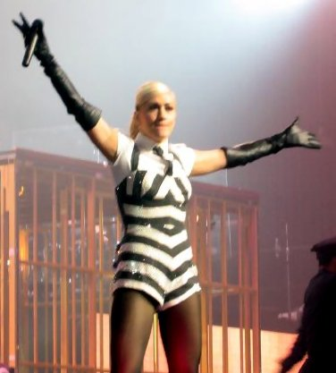 Gwen Stefani performing on The Sweet Escape TourIMG_5347